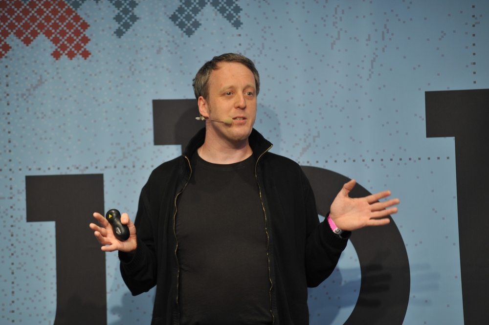 Tim Pritlove (cc) dirk haeger re:publica 2011